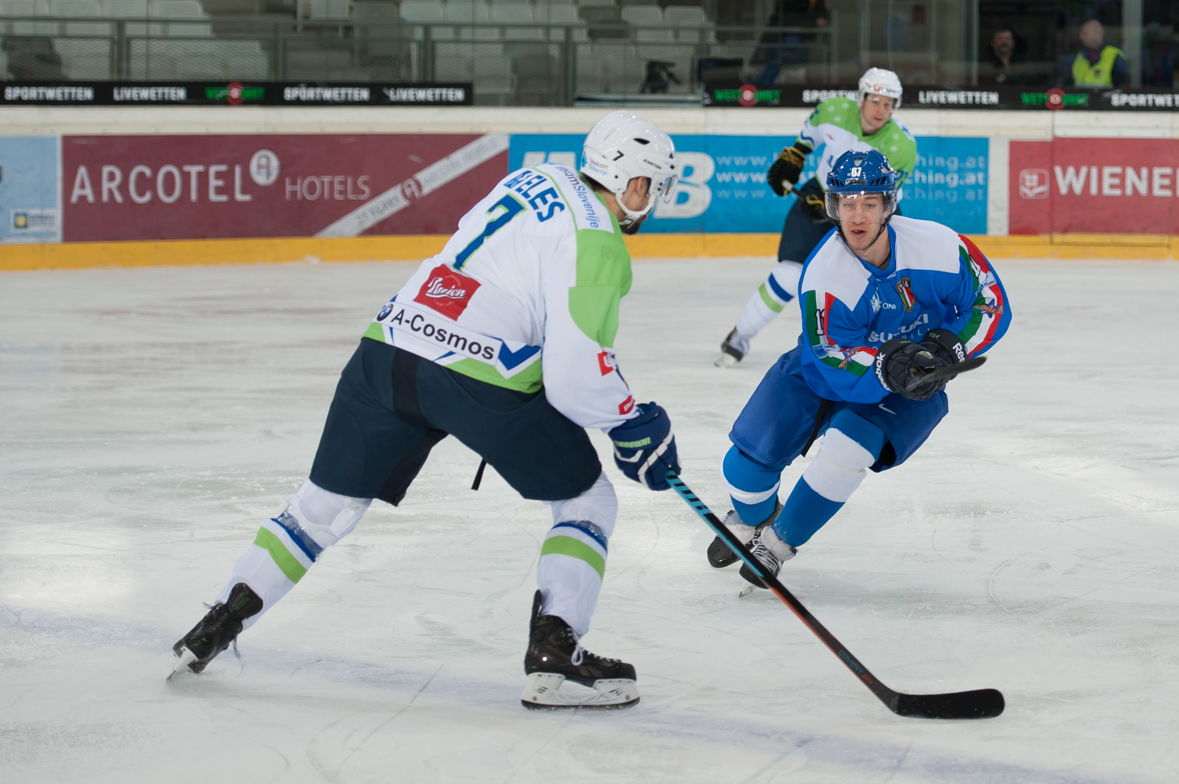 Euro Ice Hockey Challenge Vienna, February 7, 2015, Italy vs. Slovenia